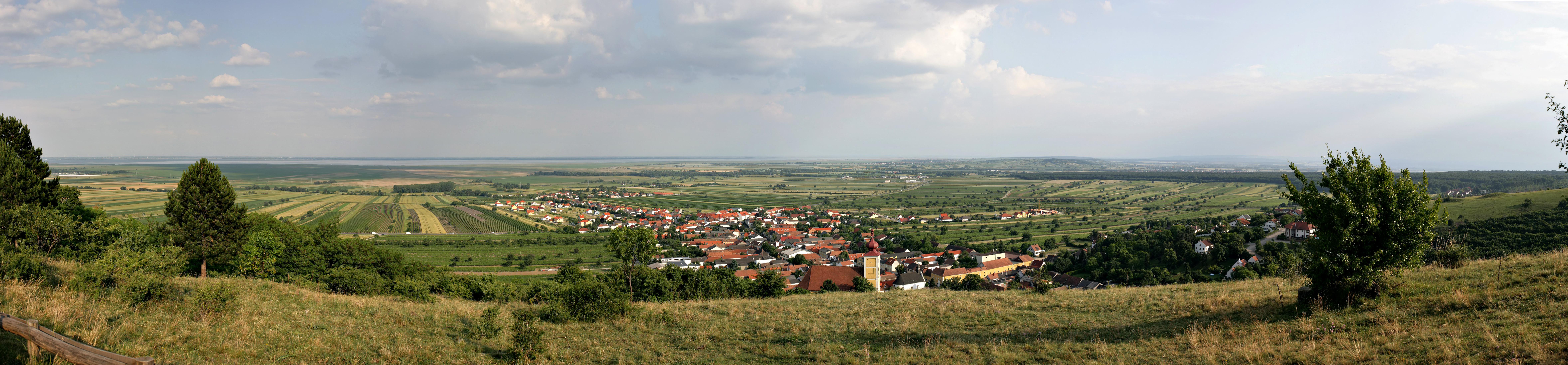 Panoramic view of Donnerskirchen